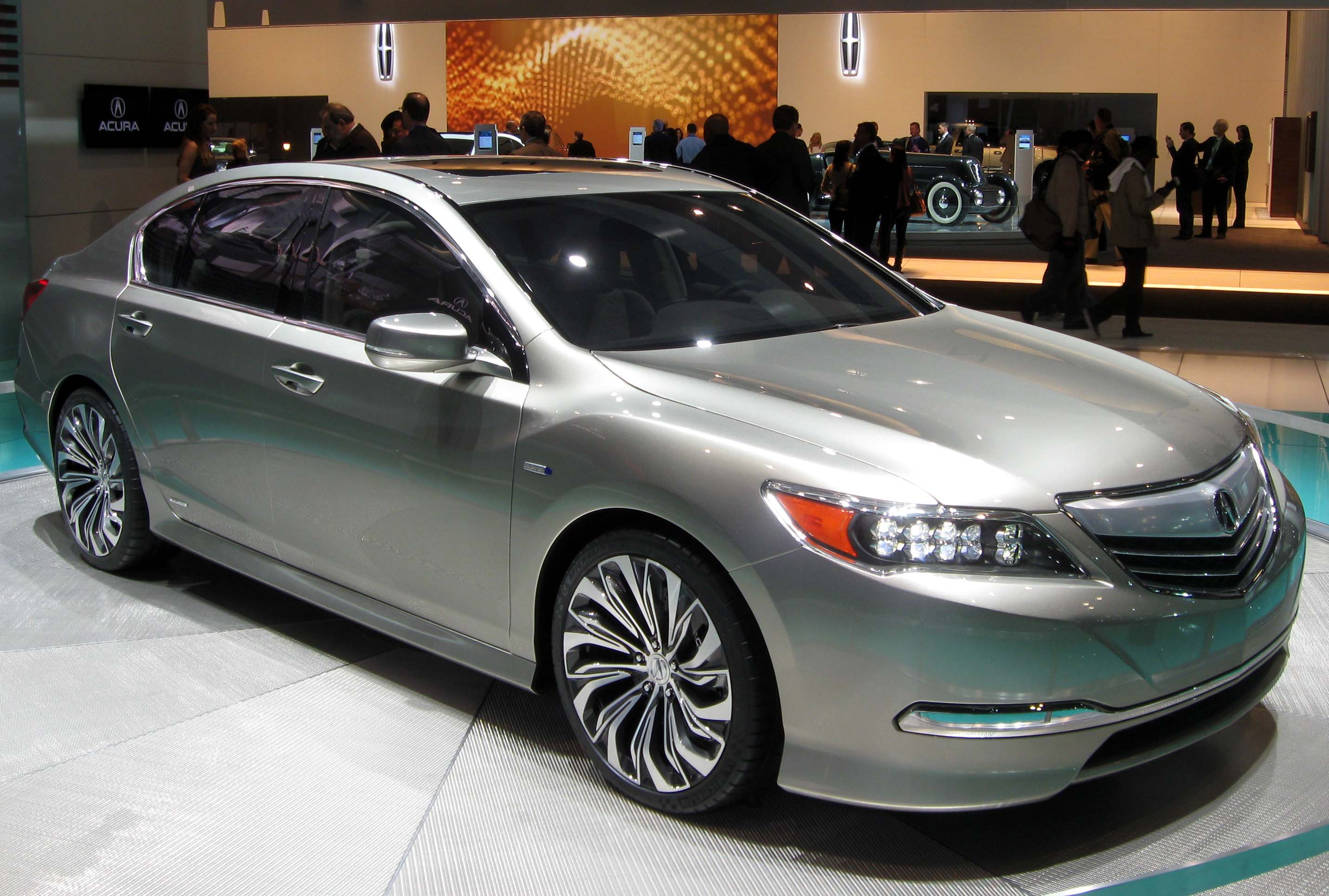 Acura RLX concept photographed at the 2012 New York International Auto Show.